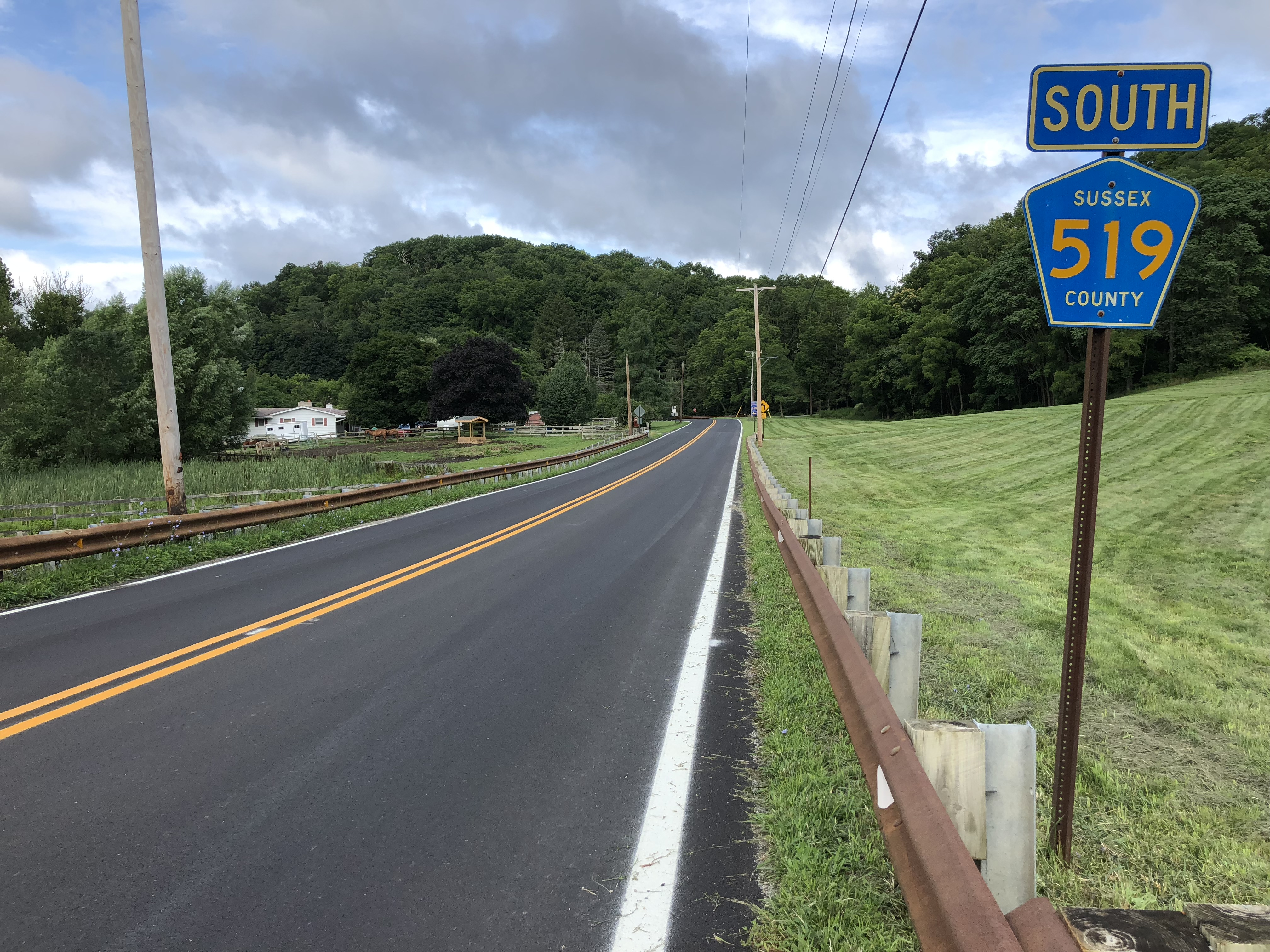 View south along Sussex County Route 519 (Wintermute Road) just south of Hunts School Road in Green Township, Sussex County, New Jersey